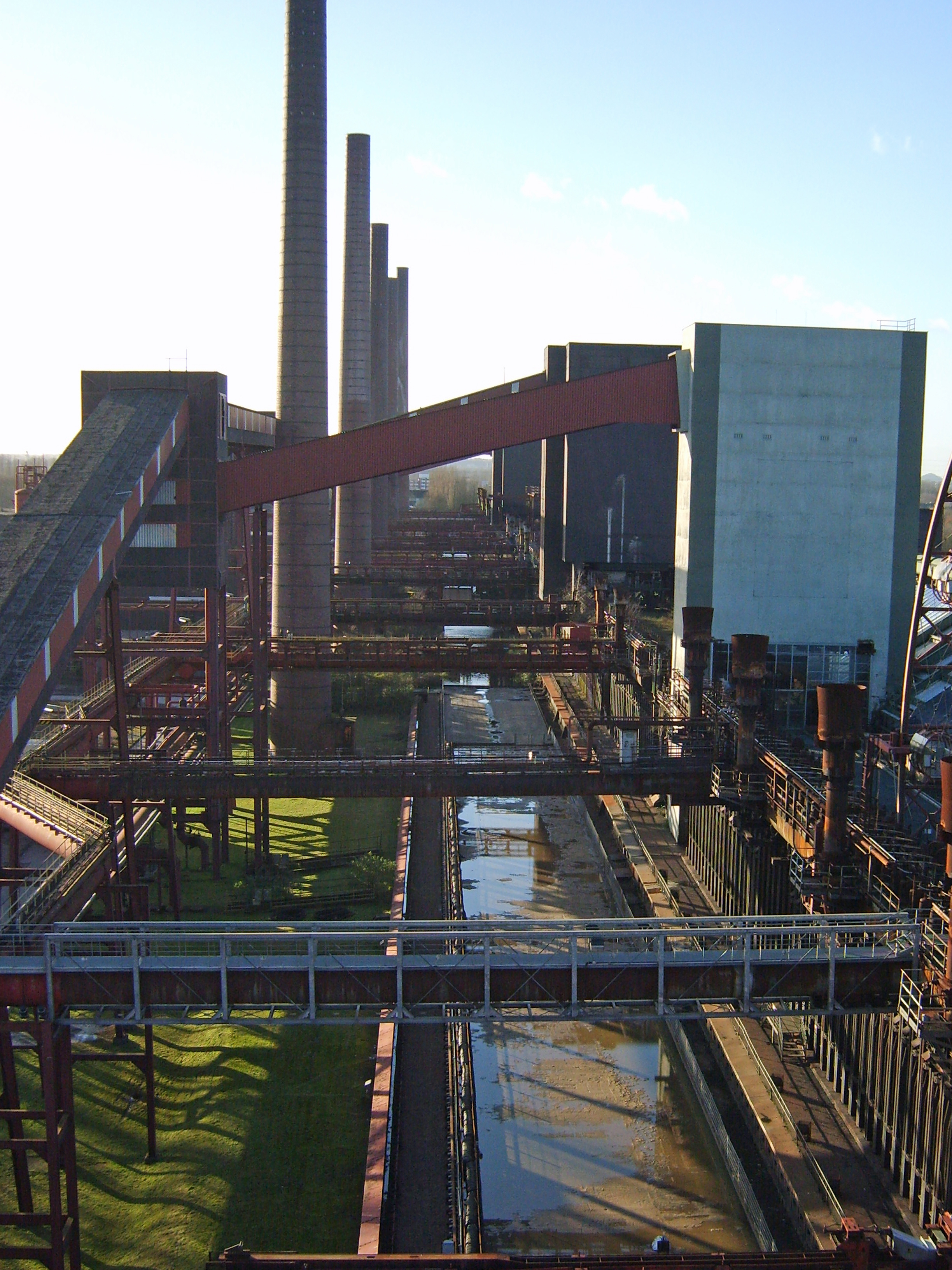 Zollverein Coal Mine Industrial Complex